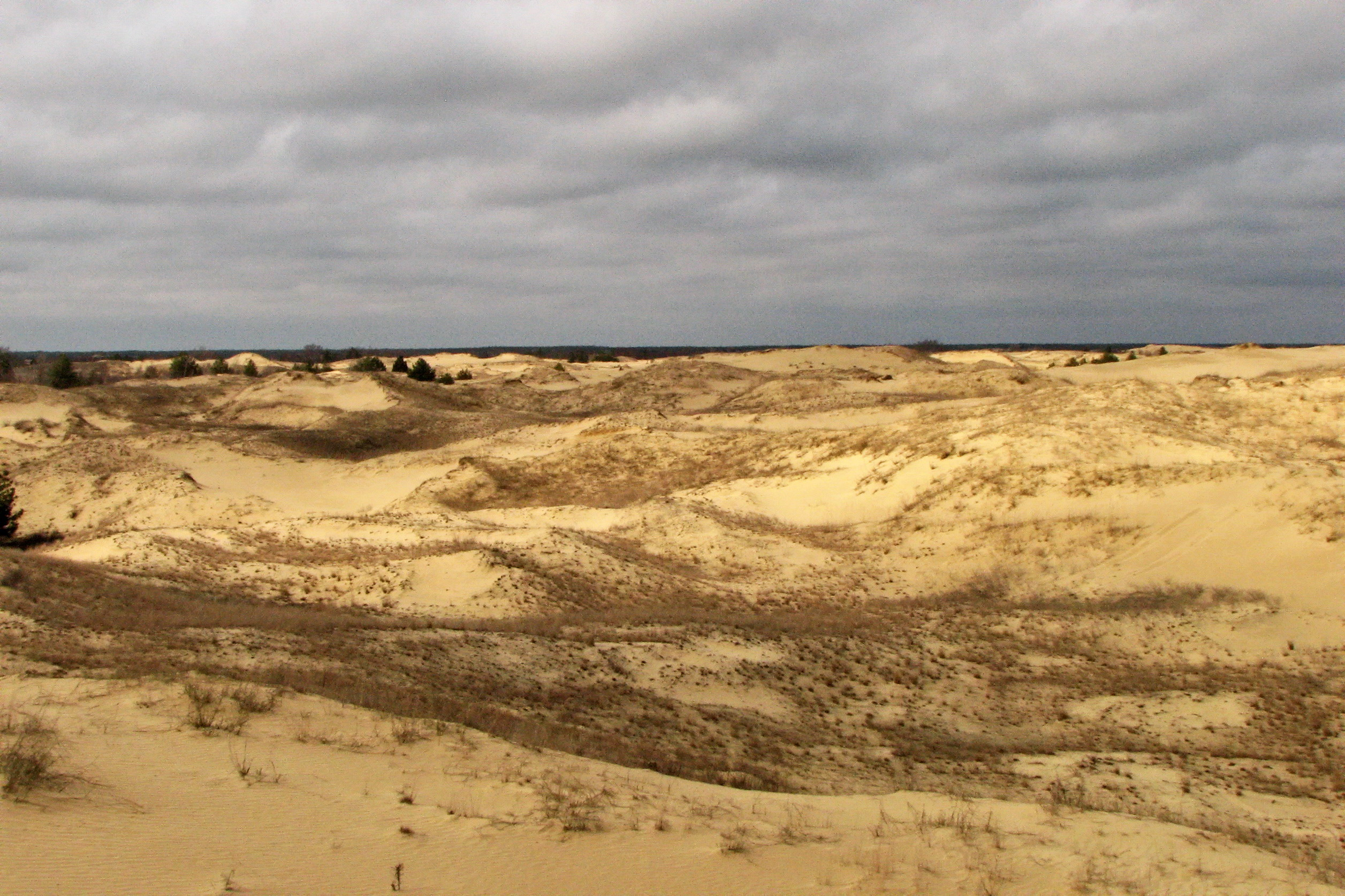 Oleshkivski sands, Ukraine